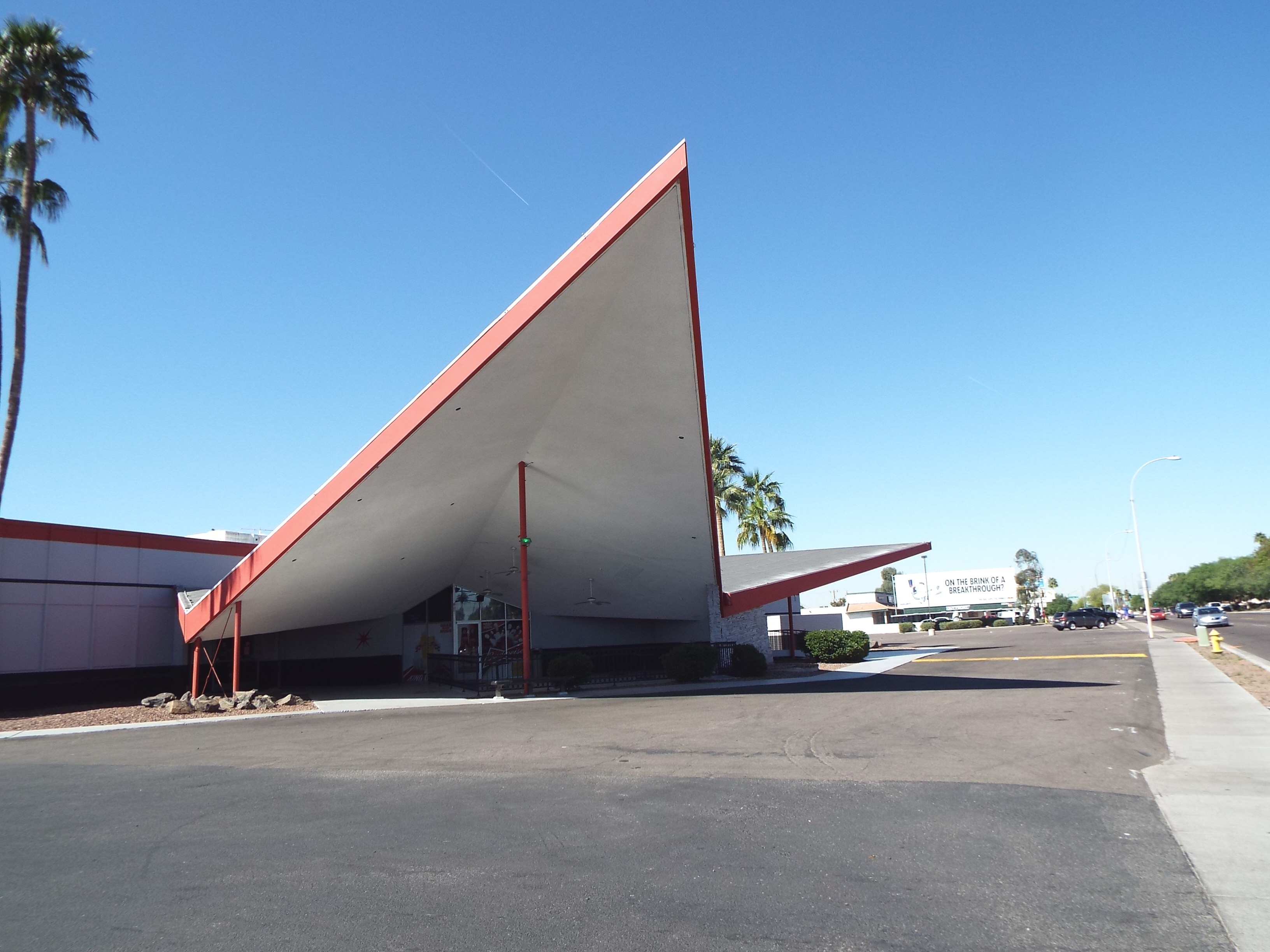 The 300 Bowl building, which now houses the AMF Christown Lanes, was built in 1960. It is located 1911 W. Bethany Home Road. The three point roofline pegs this building as Googie in style. Googie architecture is a form of modern architecture influenced by the Space Age, and the Atomic Age. The building is considered historical by the Phoenix Historic Preservation Office.